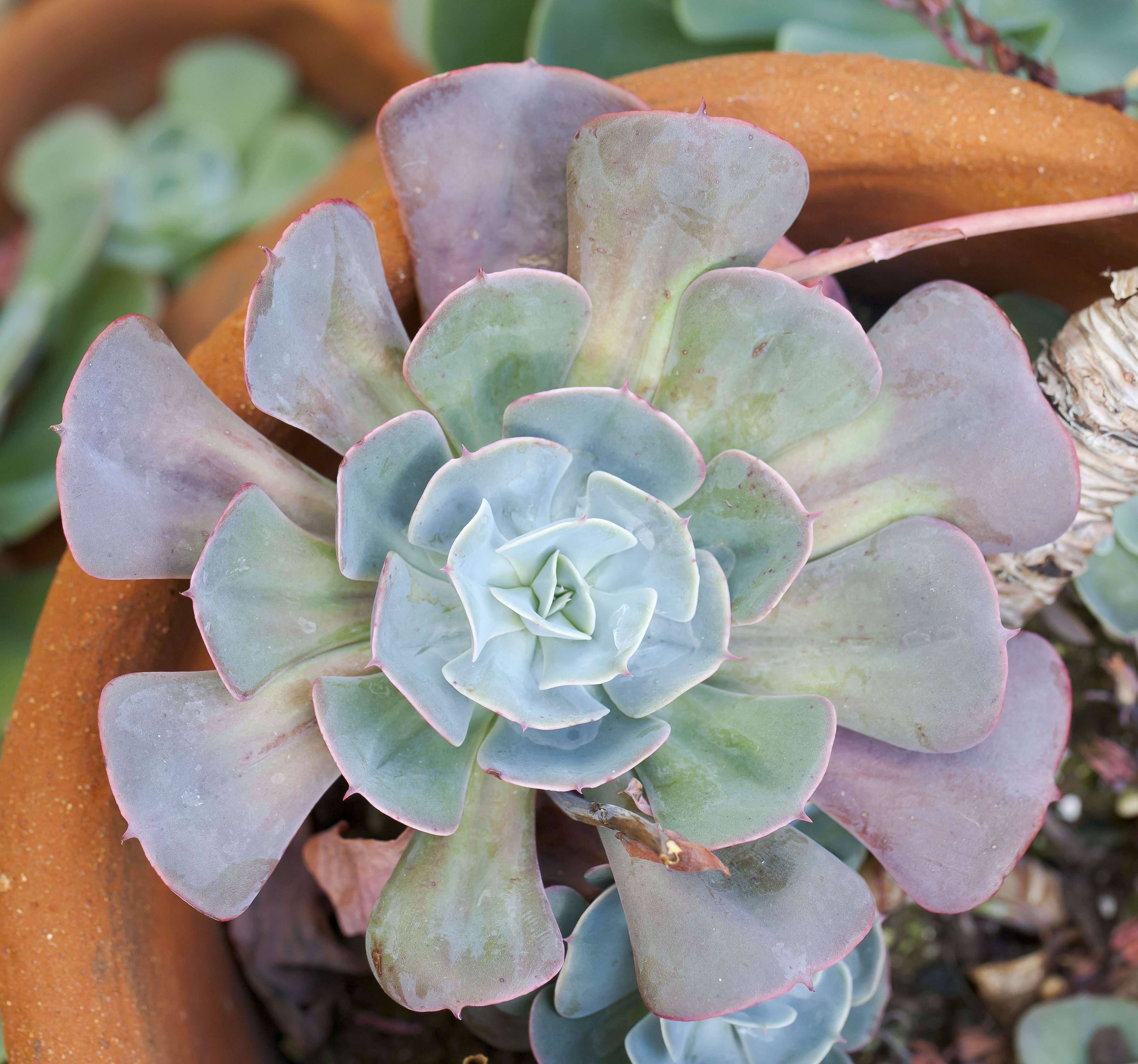 Echeveria lilacina, Botanic Conservatory, Fort Wayne, USA